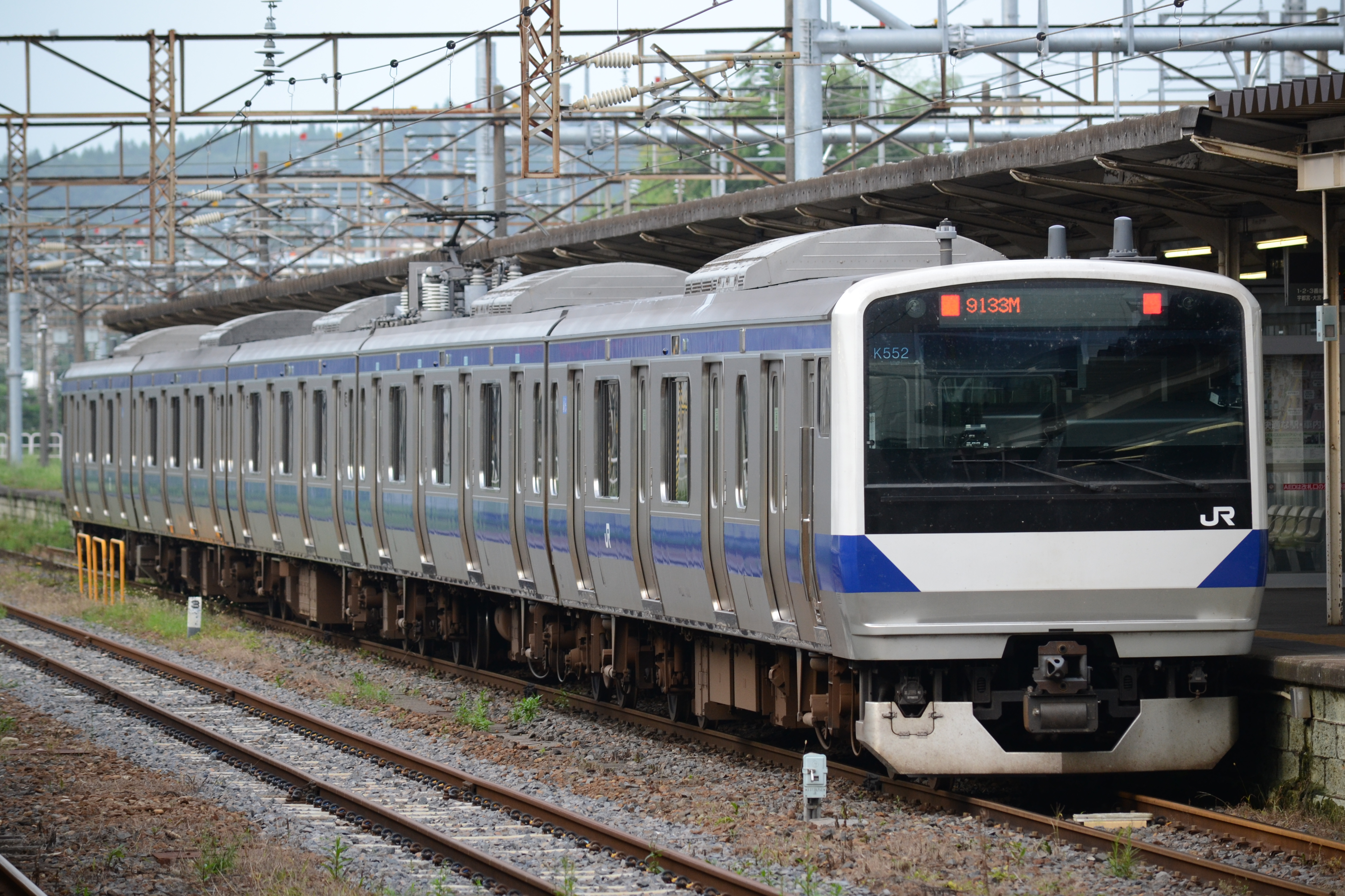 JR East E531 series EMU set K552 at Kuroiso Station